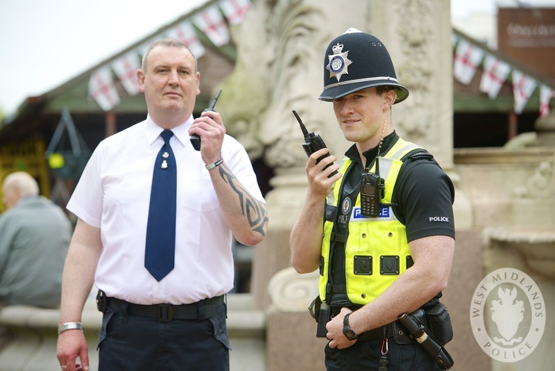 This photo shows officers in Dudley town centre working alongside business owners as part of their retail radio scheme. The retail radio scheme, set up by the Dudley Borough Business Crime Partnership, sees officers and business owners communicating on a regular basis using the direct radio link. Officers hope this will help reduce shoplifting and theft offences across the town centre.